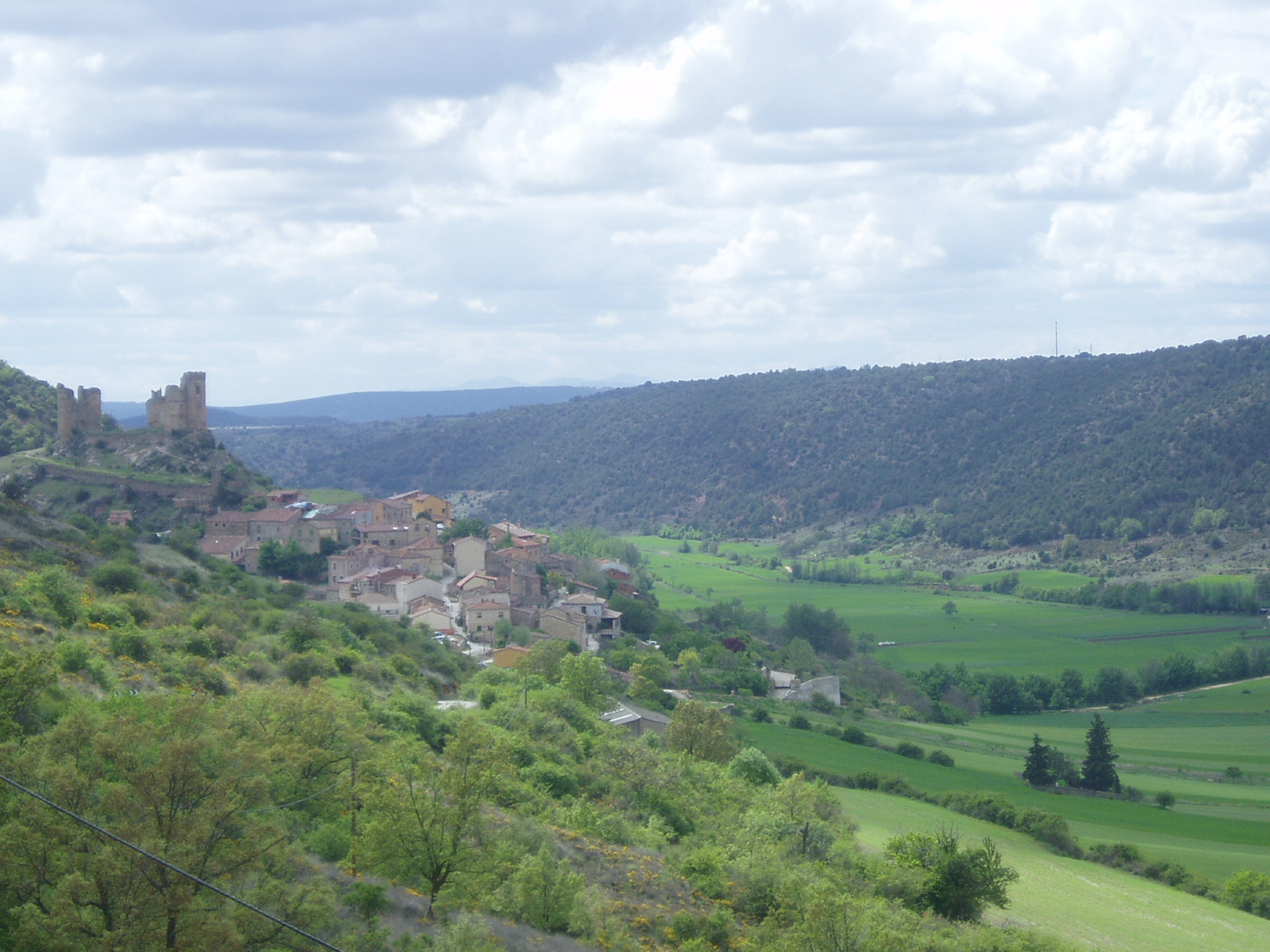 View of Pelegrina and its Castle.